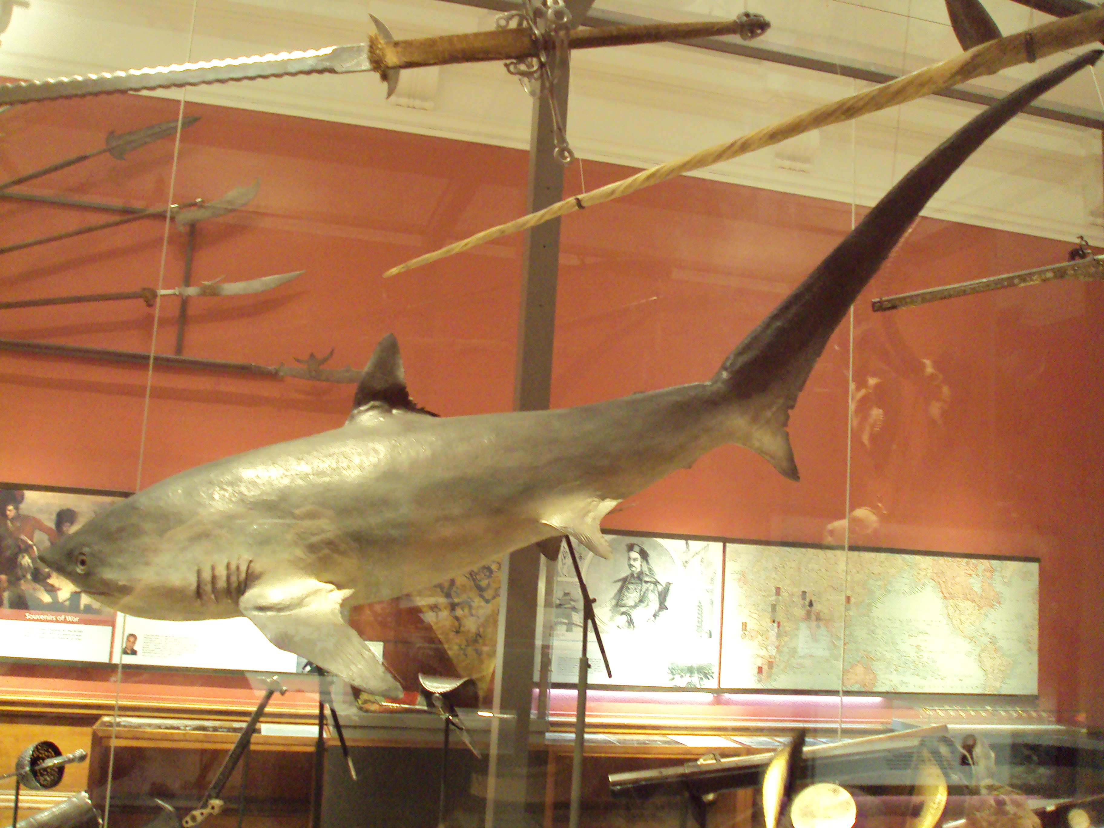 Small shark at the Kelvingrove Art Gallery and Museum, Scotland.